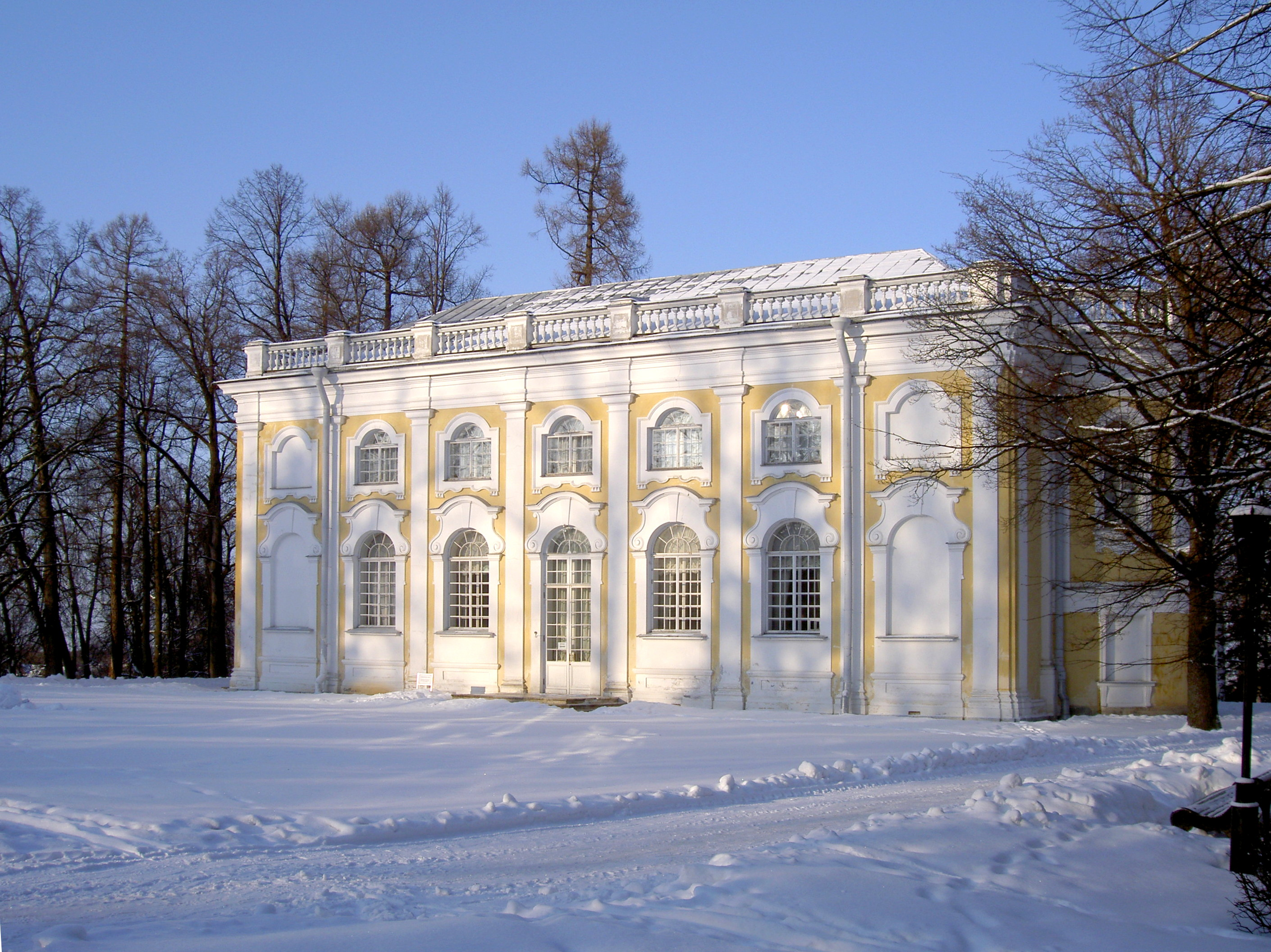 Kamennoe Zalo in Oranienbaum